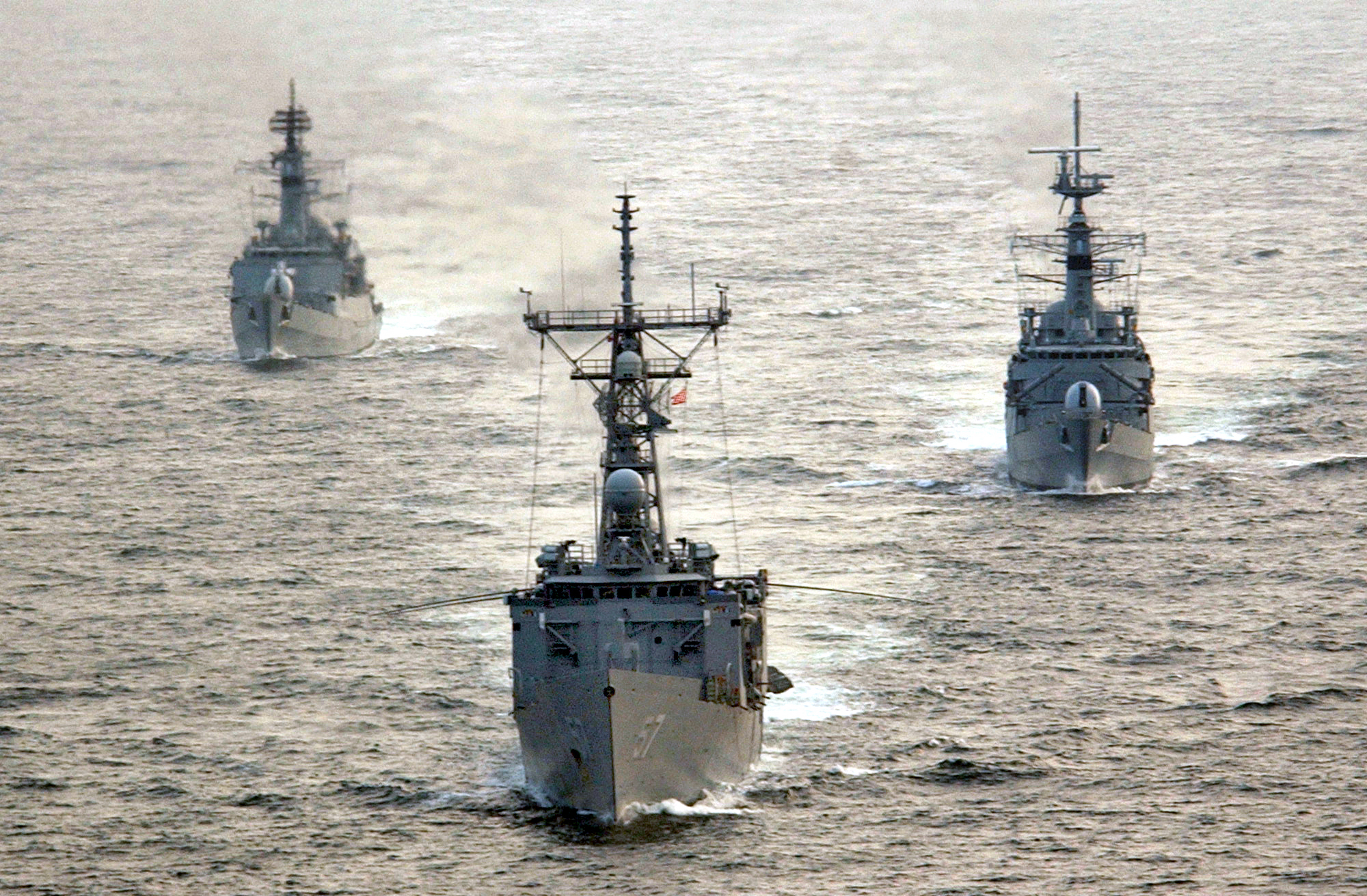 At sea with USS Rueben James (FFG 57) Sep. 25, 2002 -- USS Rueben James along with Pakistan Navy Ship (PNS) Shahjahan and PNS Tippi Sultan are currently participating in Exercise Inspired Siren 2002.